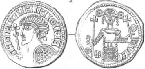 Coin of Sweyn Estridsson.